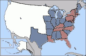 1848 elections in the USA - results by state